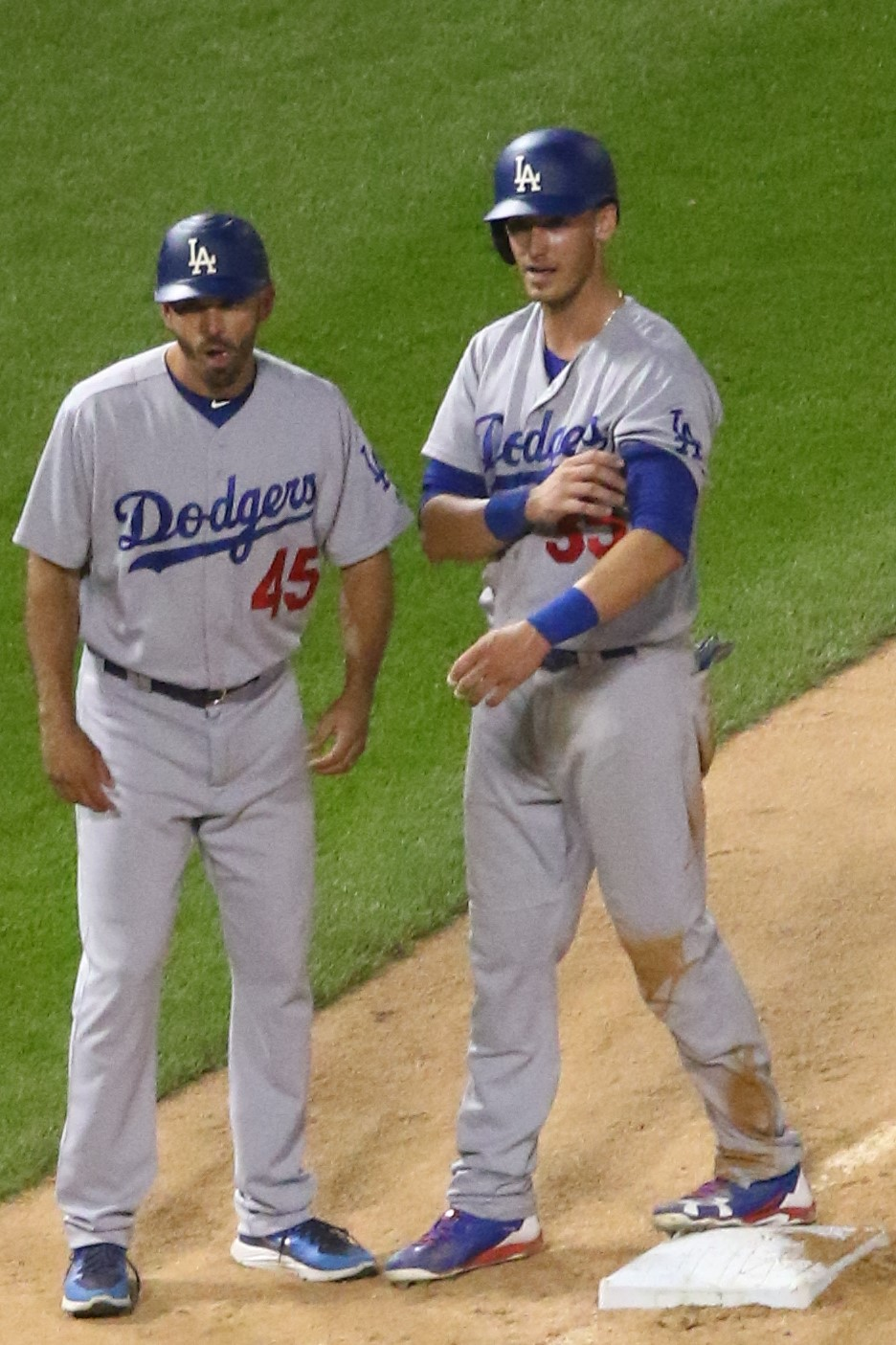 Cody Bellinger with third base coachg Chris Woodward for the 2017 Los Angeles Dodgers